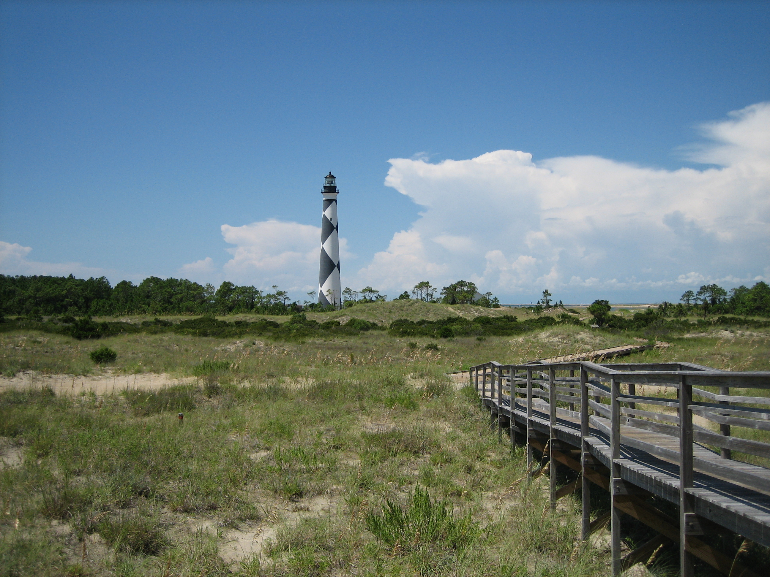 View of Cape Lookout Lighthouse from a public beach access on South Core Banks, Carteret County, North Carolina, United States. South Core Banks are one of three islands included in the Cape Lookout National Seashore.